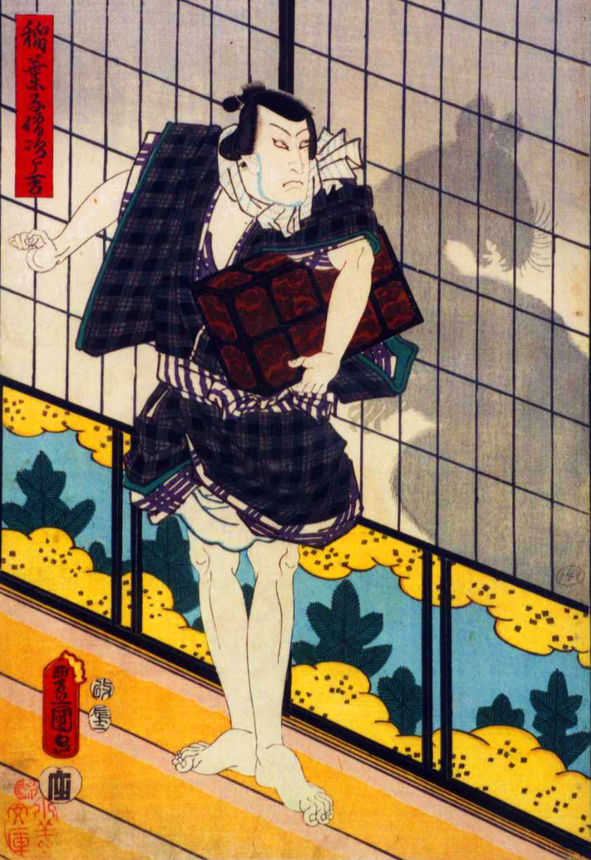 Kodanji Ichikawa IV (1812–66) as Nezumi-kozō Jirokichi, in the January 1857 Edo Ichimuraza production of Nezumi Komon Haru no Shingata